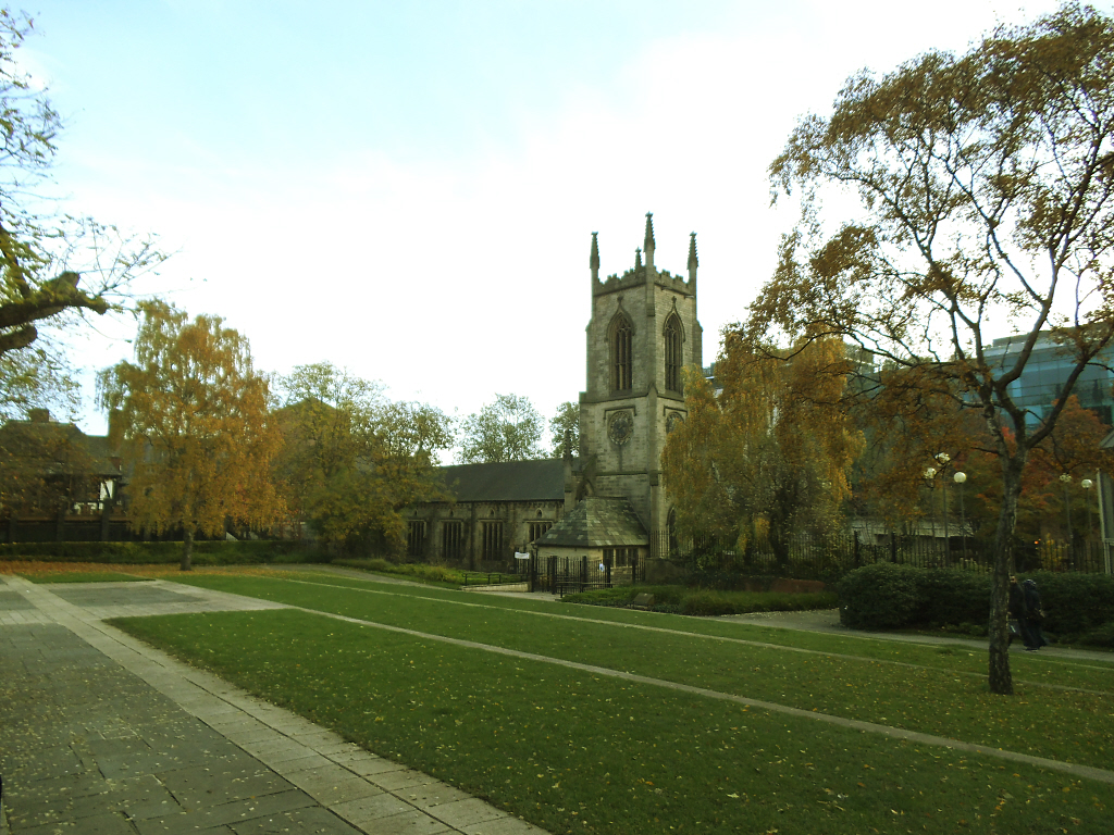 Merrion Street Gardens, Leeds, West Yorkshire, with the parish church of St John the Evangelist